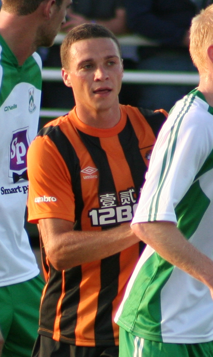 James Chester playing for Hull City against North Ferriby United at Grange Lane, North Ferriby on 21 July 2014